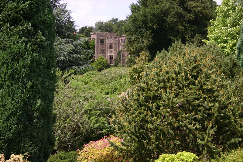 Nymans Garden, view of ruined house from lookout